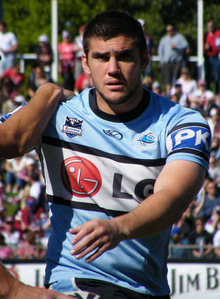 Kade Snowden